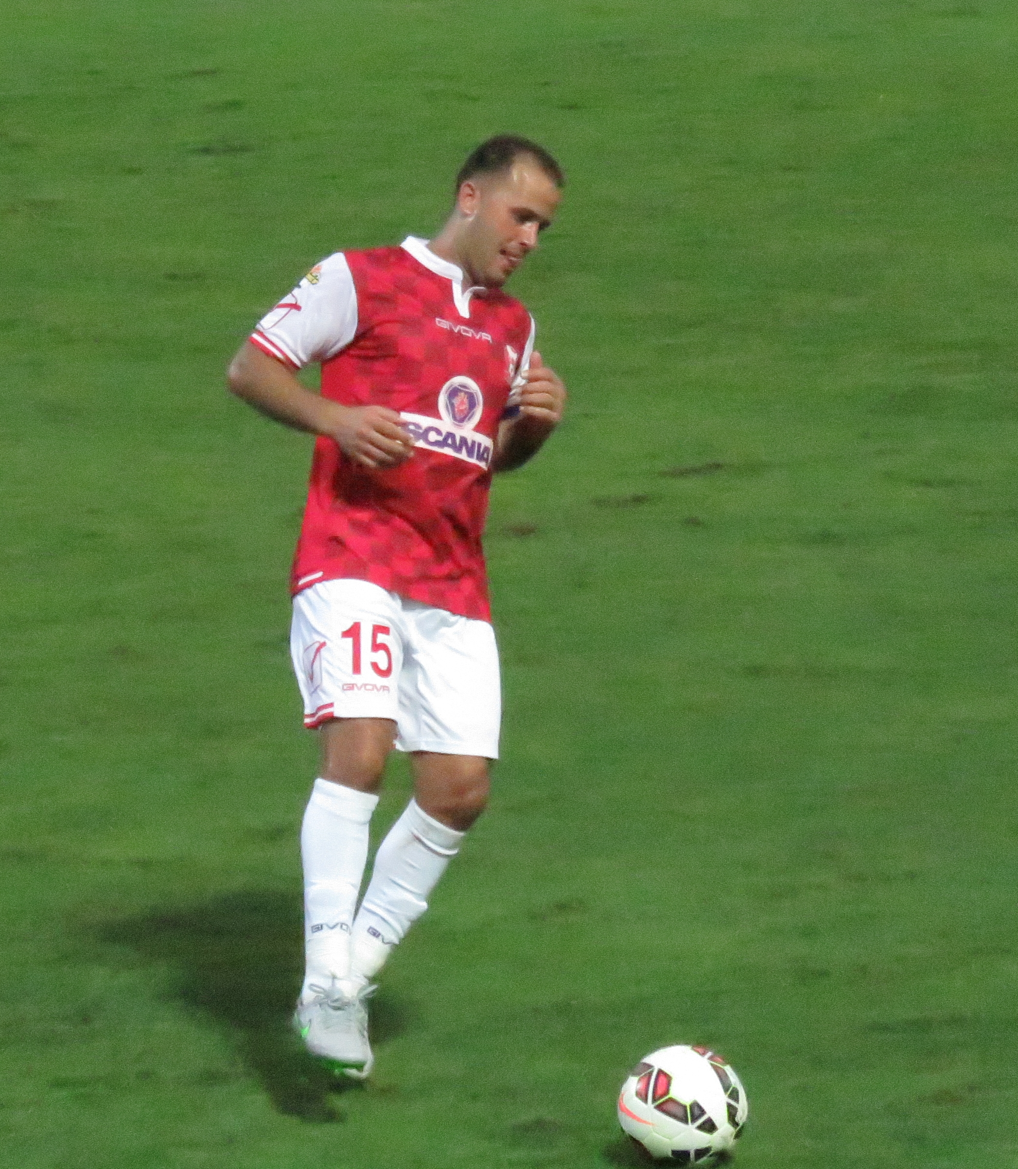 Maccabi Tel Aviv VS. Bnei Sakhnin, 22 August 2015